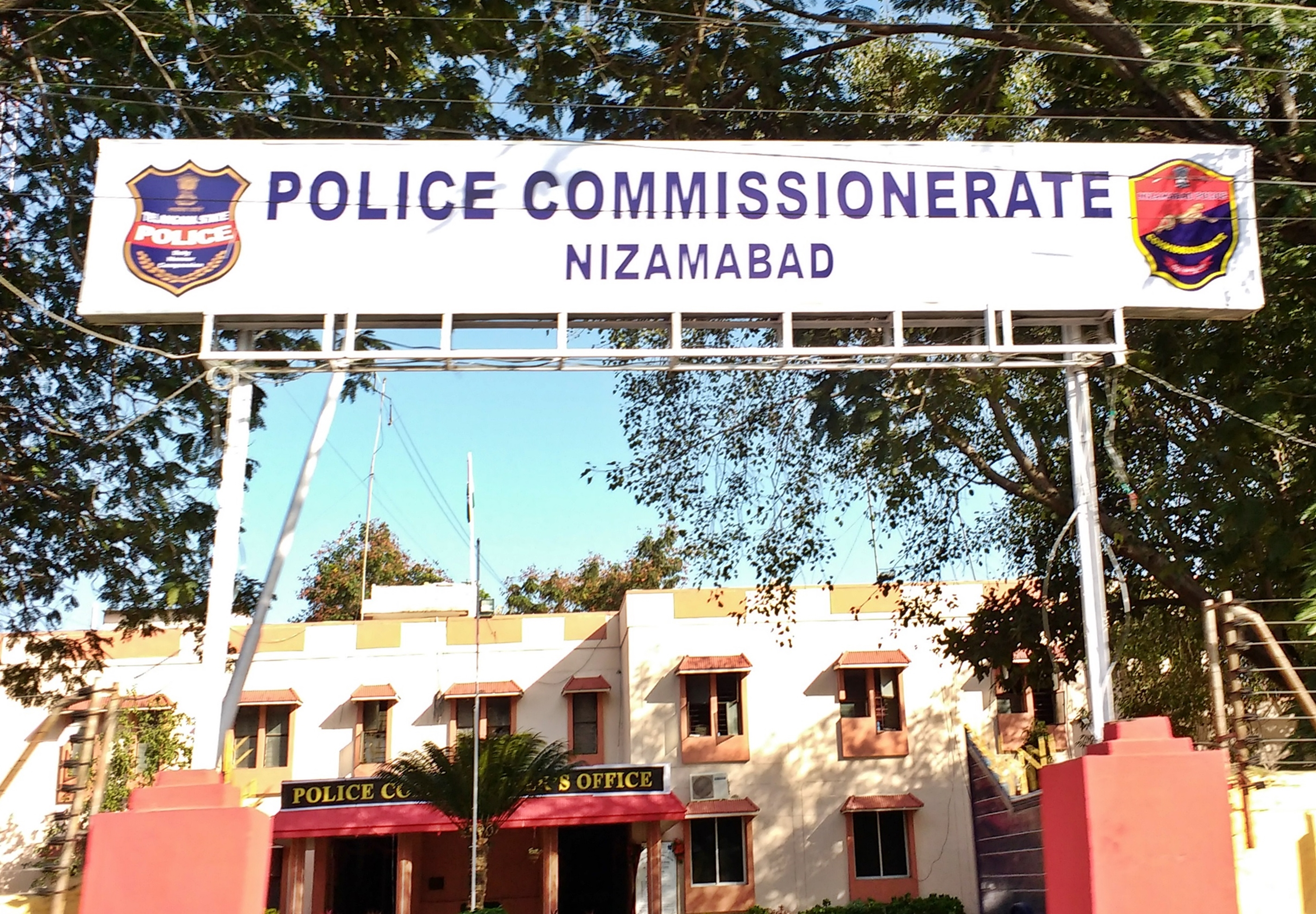 Office of The Commissioner of Police The Nizamabad Police Commissionerate or Nizamabad Police, is the local law enforcement agency for the city and district of Nizamabad and is headed by Commissioner of Police.